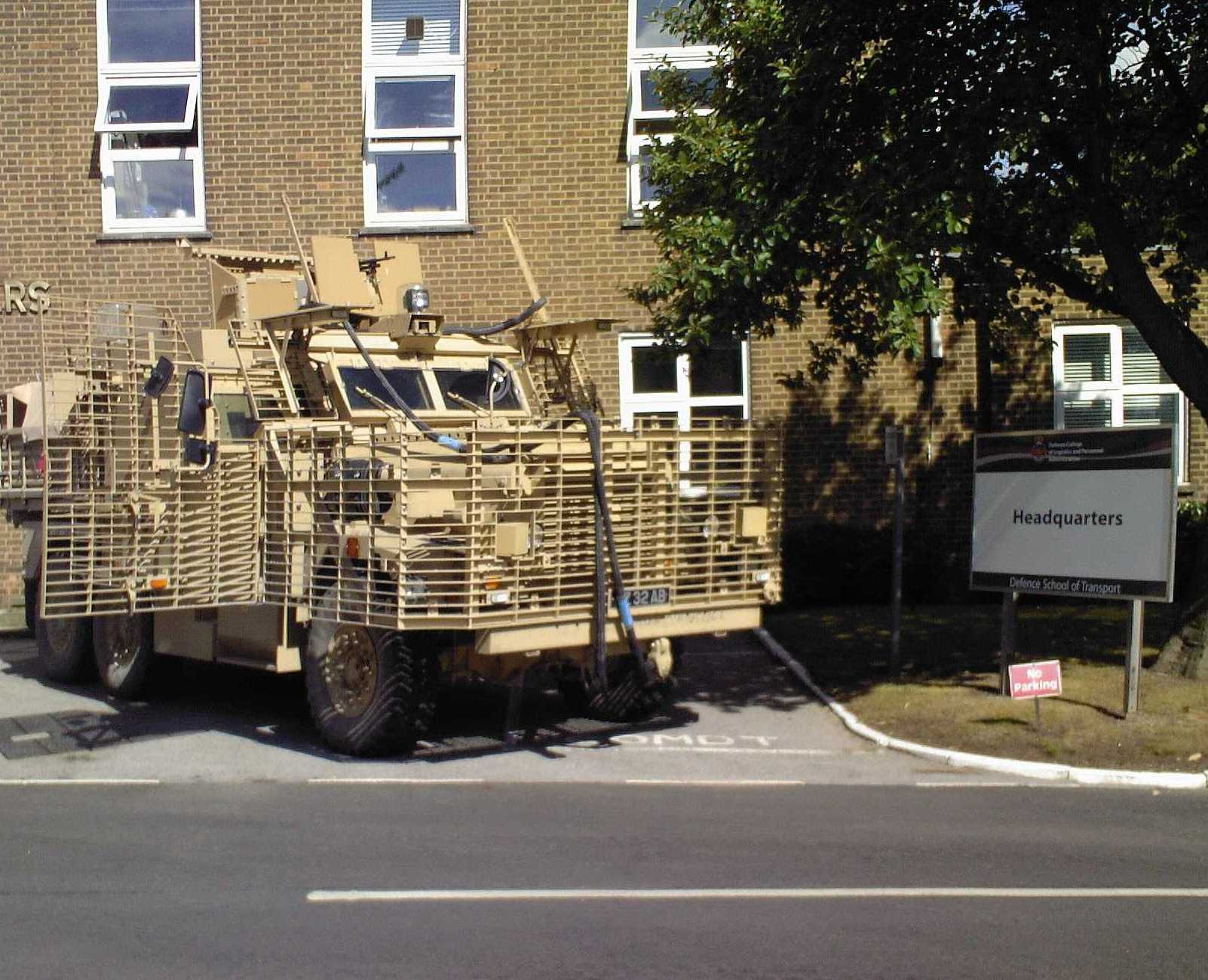 Mastiff protective patrol vehicle British variant of the Cougar, at Defence School of Transport, Leconfield, East Riding of Yorkshire, England.